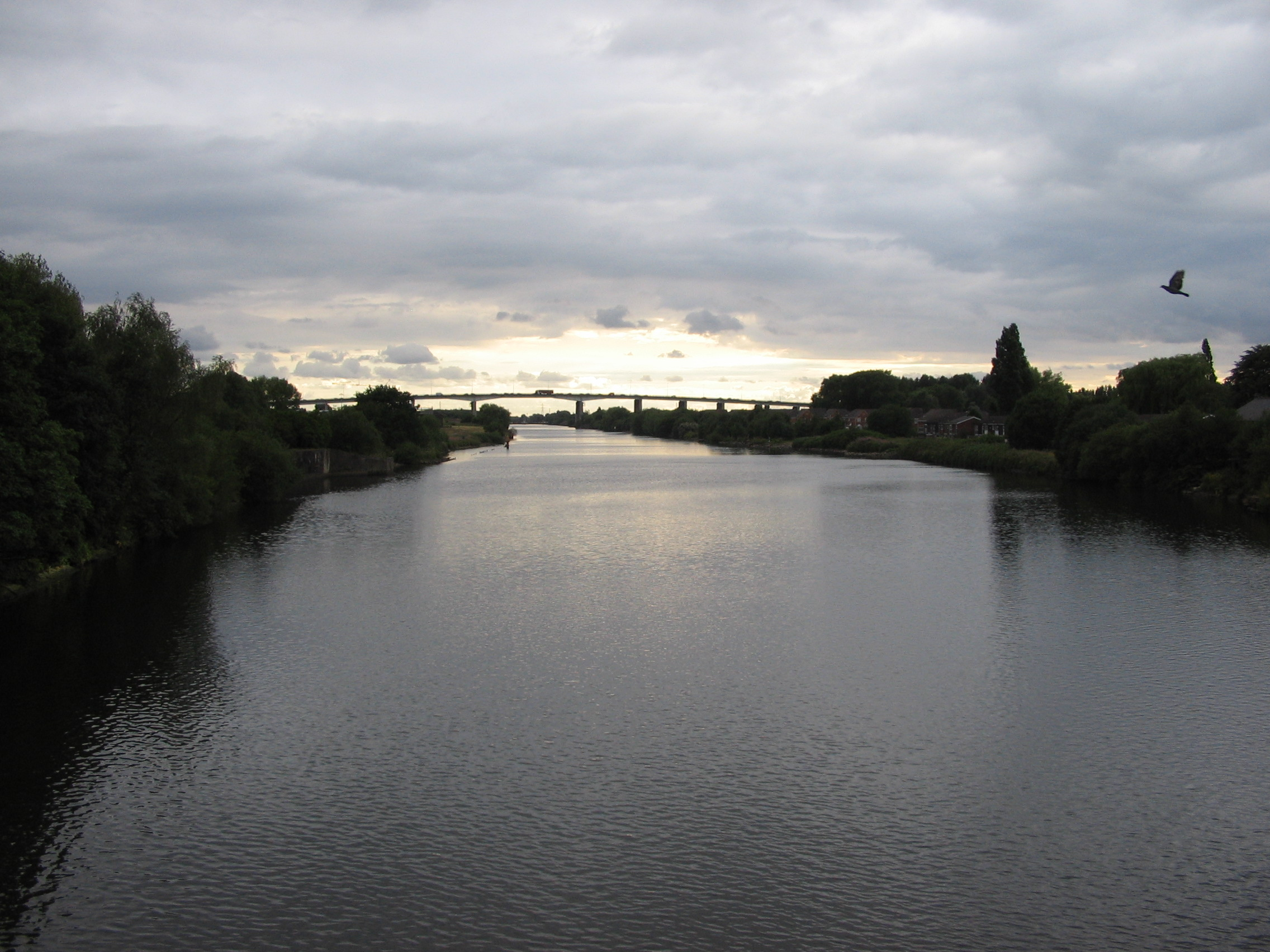 Manchester Ship Canal bij Barton - eigen foto - augustus 2006